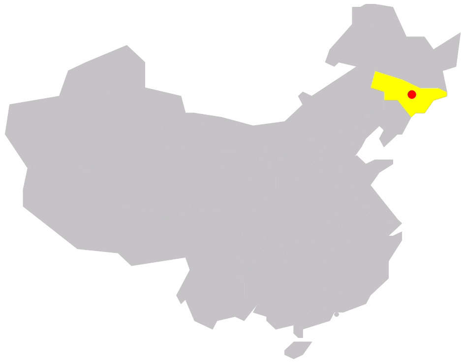 position of Jilin in China